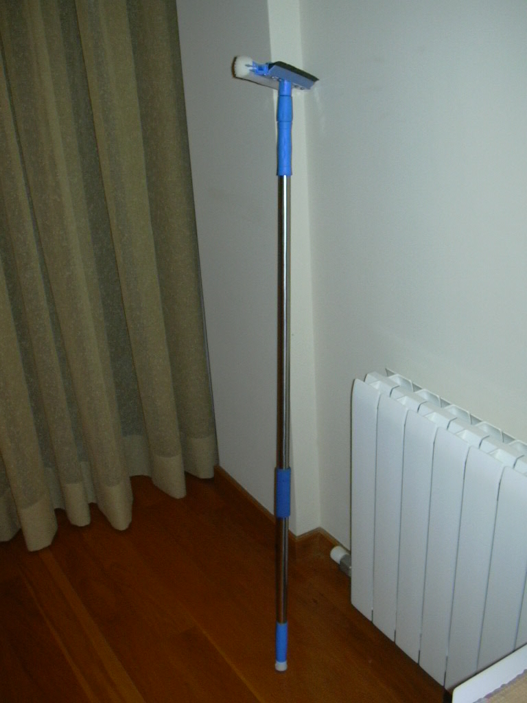 A squeegee.